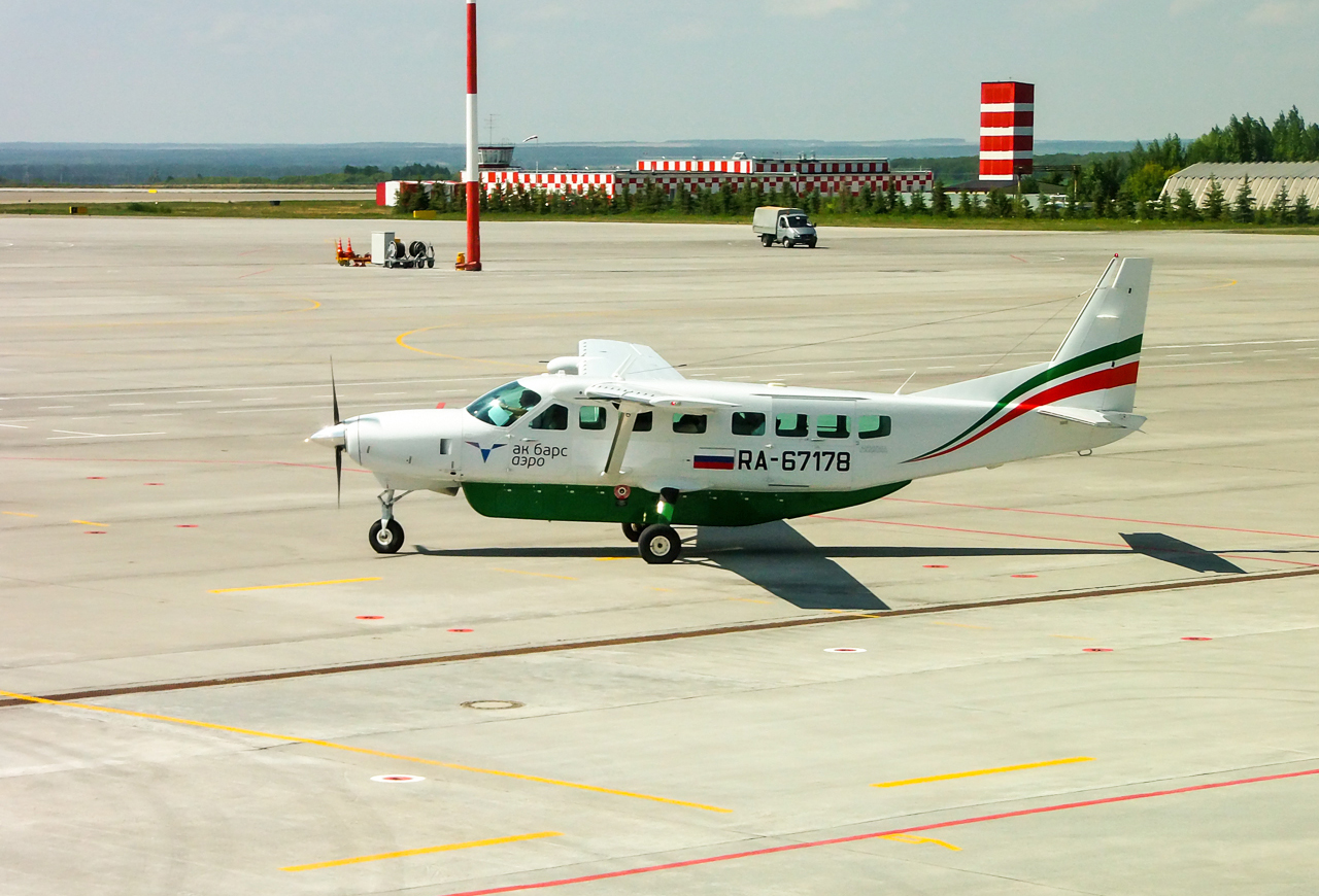 Cessna 208B RA-67178 at Kazan International Airport